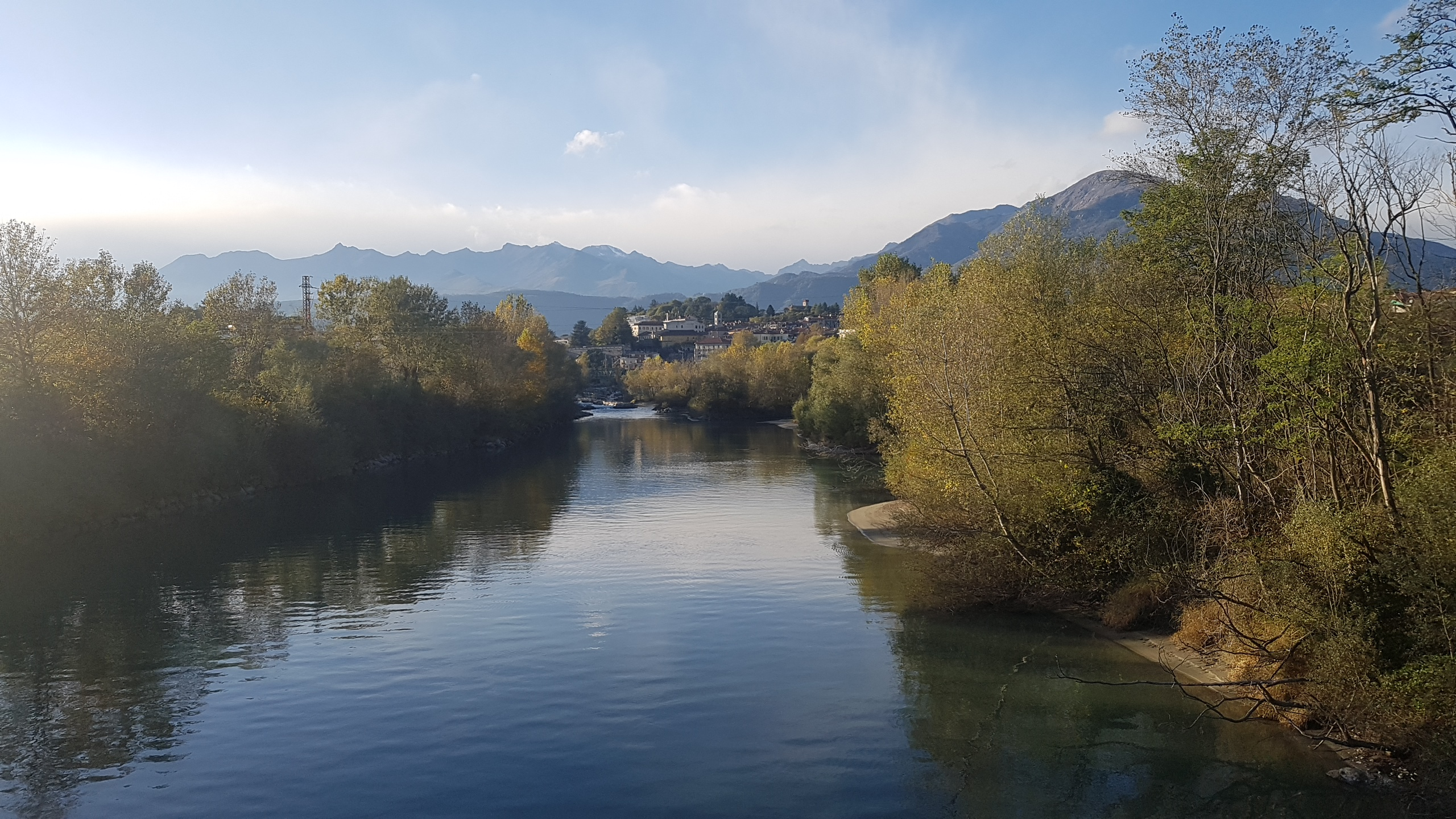 Dora Baltea River, Ivrea, Northern Italy